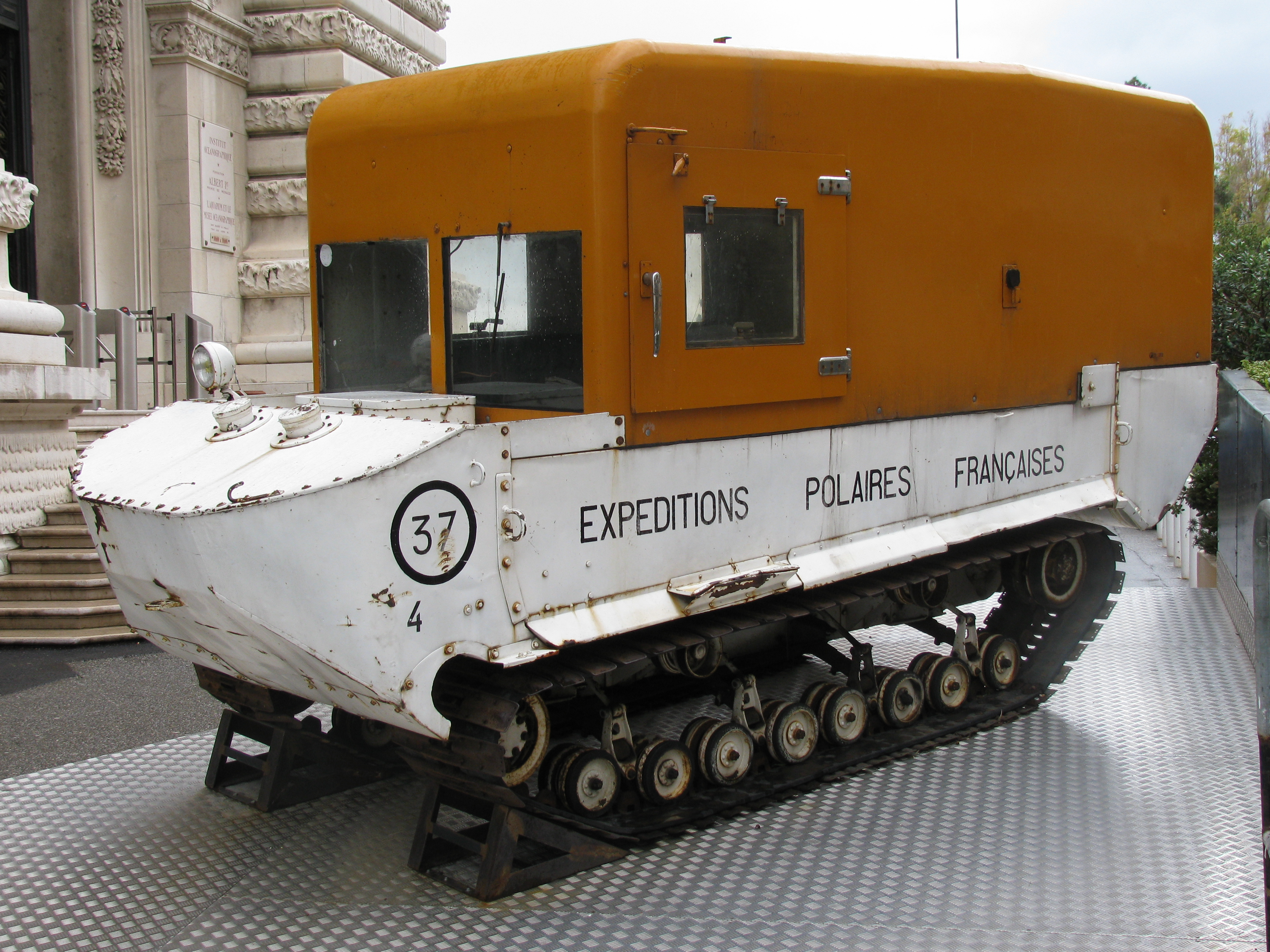 Weasel M29 C as used in the Polar Regions by the Expéditions Polaires Françaises